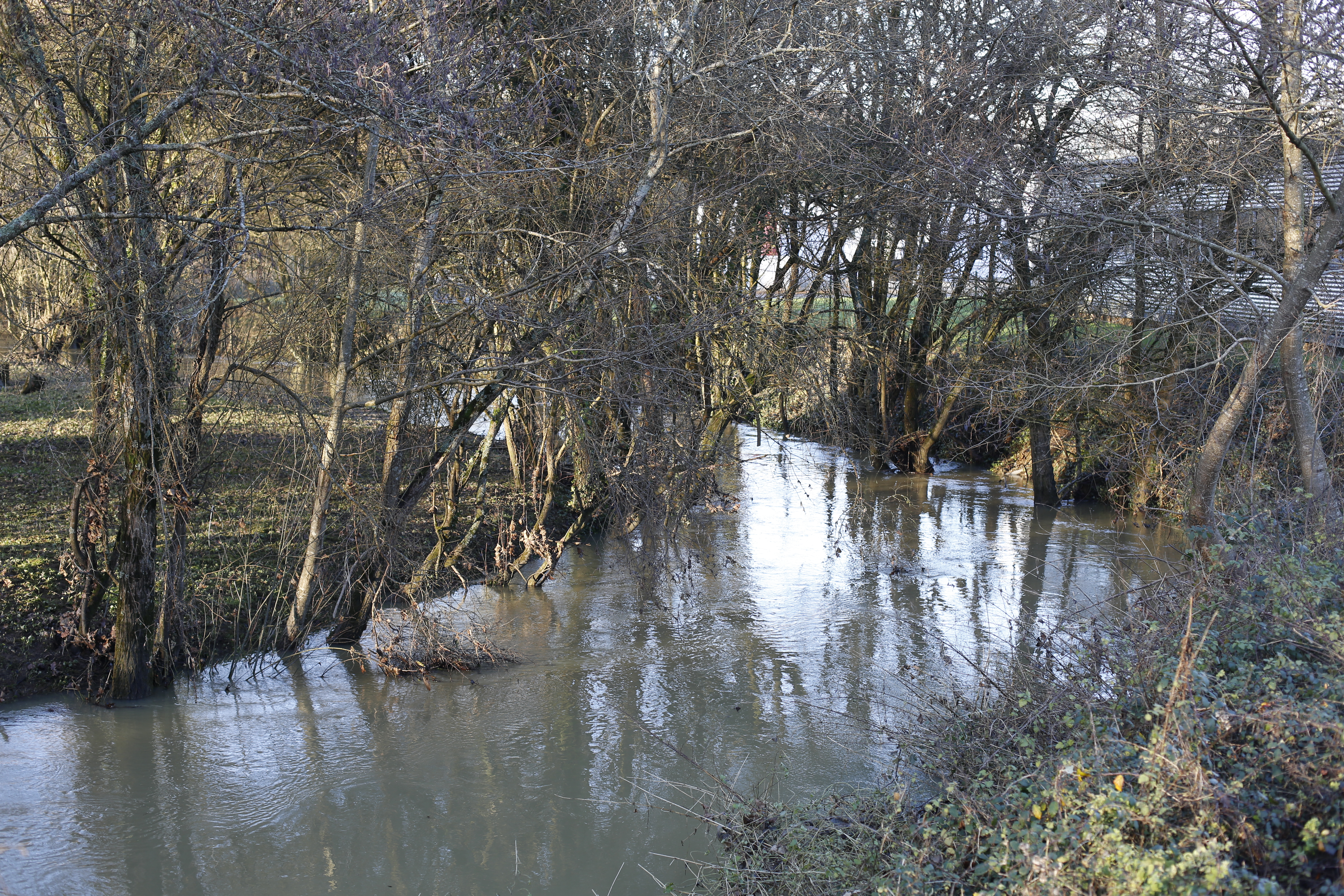 Brutz River, between Teillay and Soulvache.